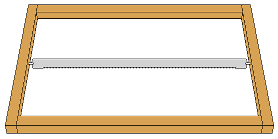 diagrammatic picture of a frame saw